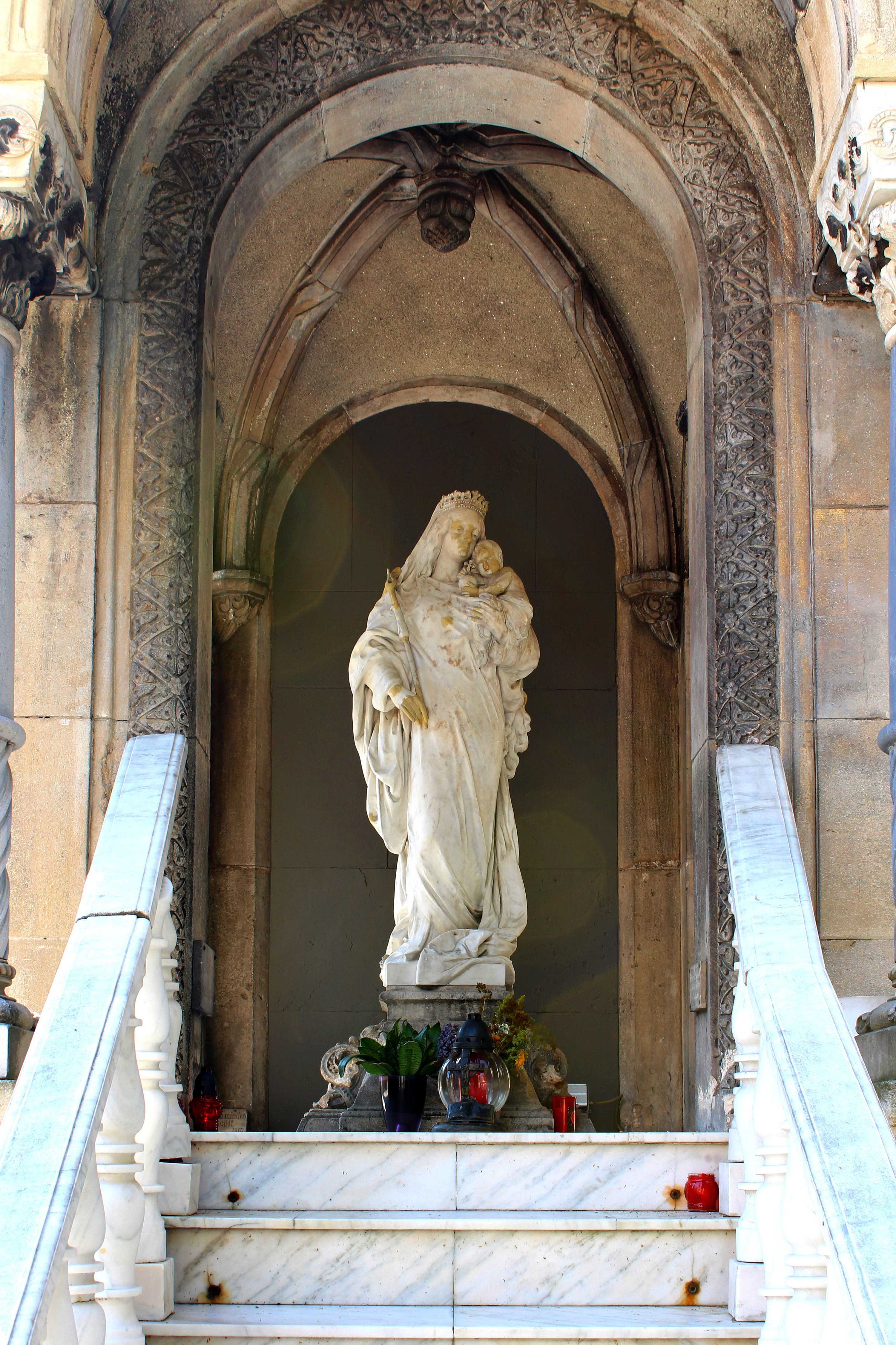 Statue of Virgin Mary, Timisoara, 2016